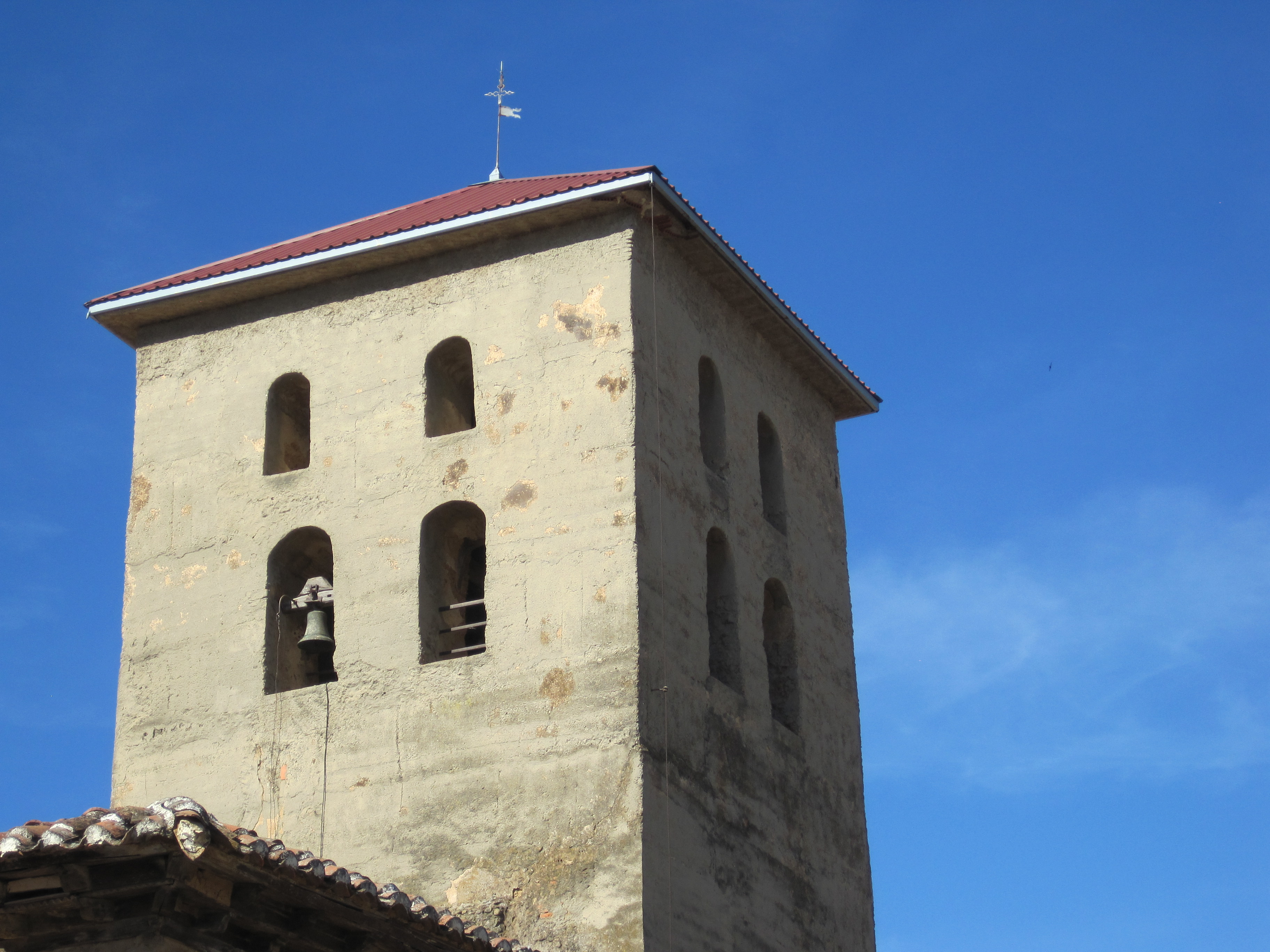 Imagen tomada en Bercianos del Páramo (León).